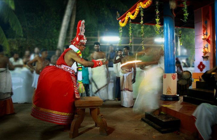 Vishnumoorti thottam infront of the sanctum sanctorum